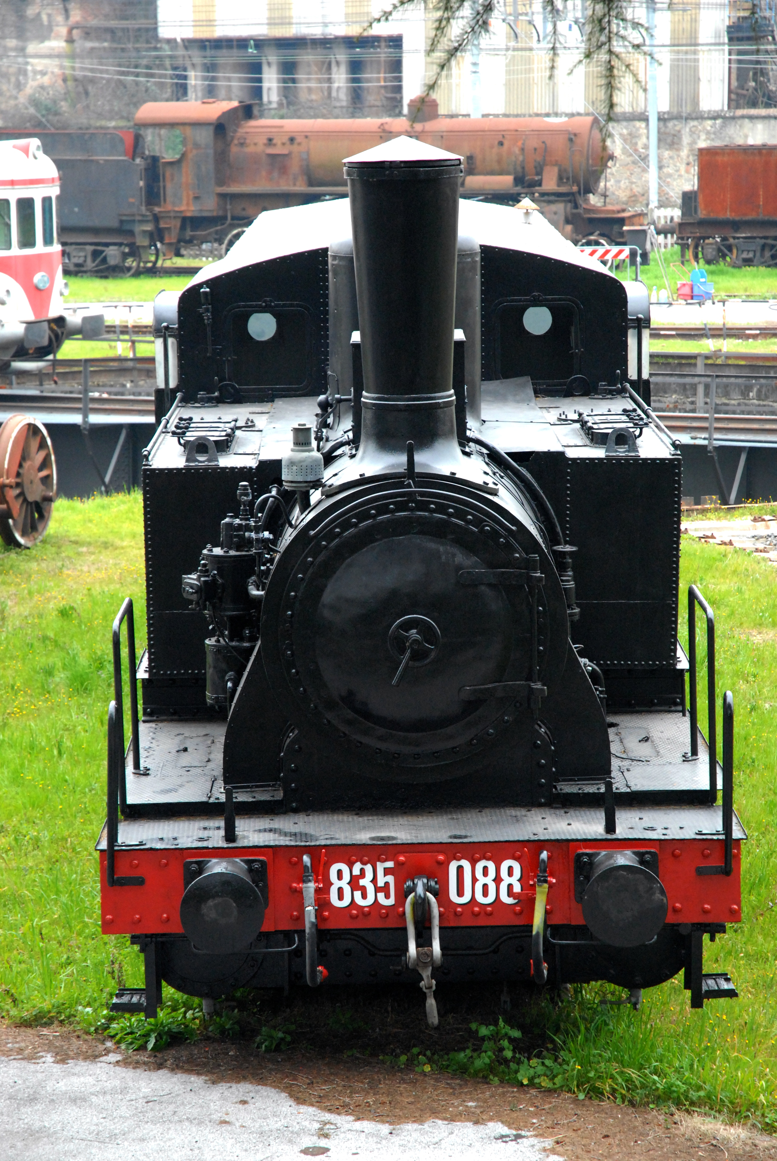 Photos from the FS railway deposit in Pistoia, Italy. FS group 835 unit n. 088